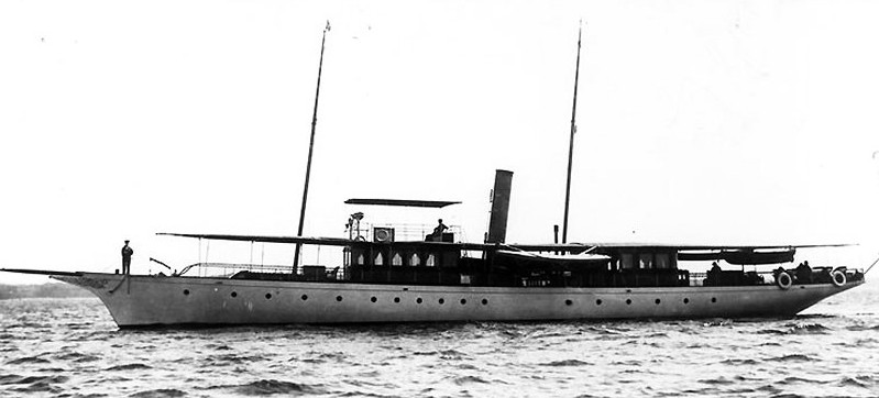 Photo #: NH 101712 Florence (American Steam Yacht, 1903) Photographed prior to her World War I era Naval service. Formerly named Quickstep, this yacht was acquired by the Navy on 28 April 1917 and placed in commission on 29 August 1917 as USS Florence (SP-173). She was returned to her owner on 19 February 1919. The original print is in National Archives' Record Group 19-LCM. U.S. Naval Historical Center Photograph.